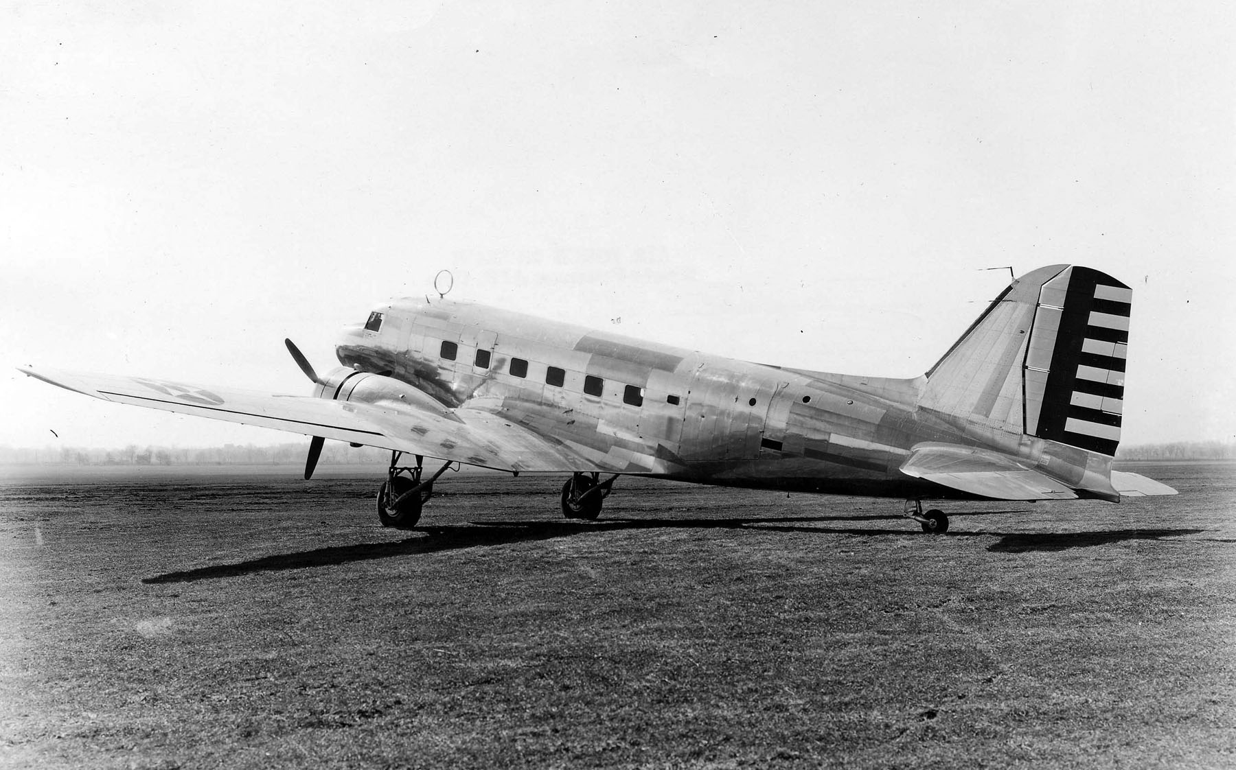 Douglas C-39 (S/N 38-499) on ground. A composite of DC-2 & DC-3 components, with C-33 fuselage and wings and DC-3 type tail, centre-section and undercarriage. Powered by two Wright R-1820-55 radial piston engines, of 975 hp (727 kW) each, 35 built.